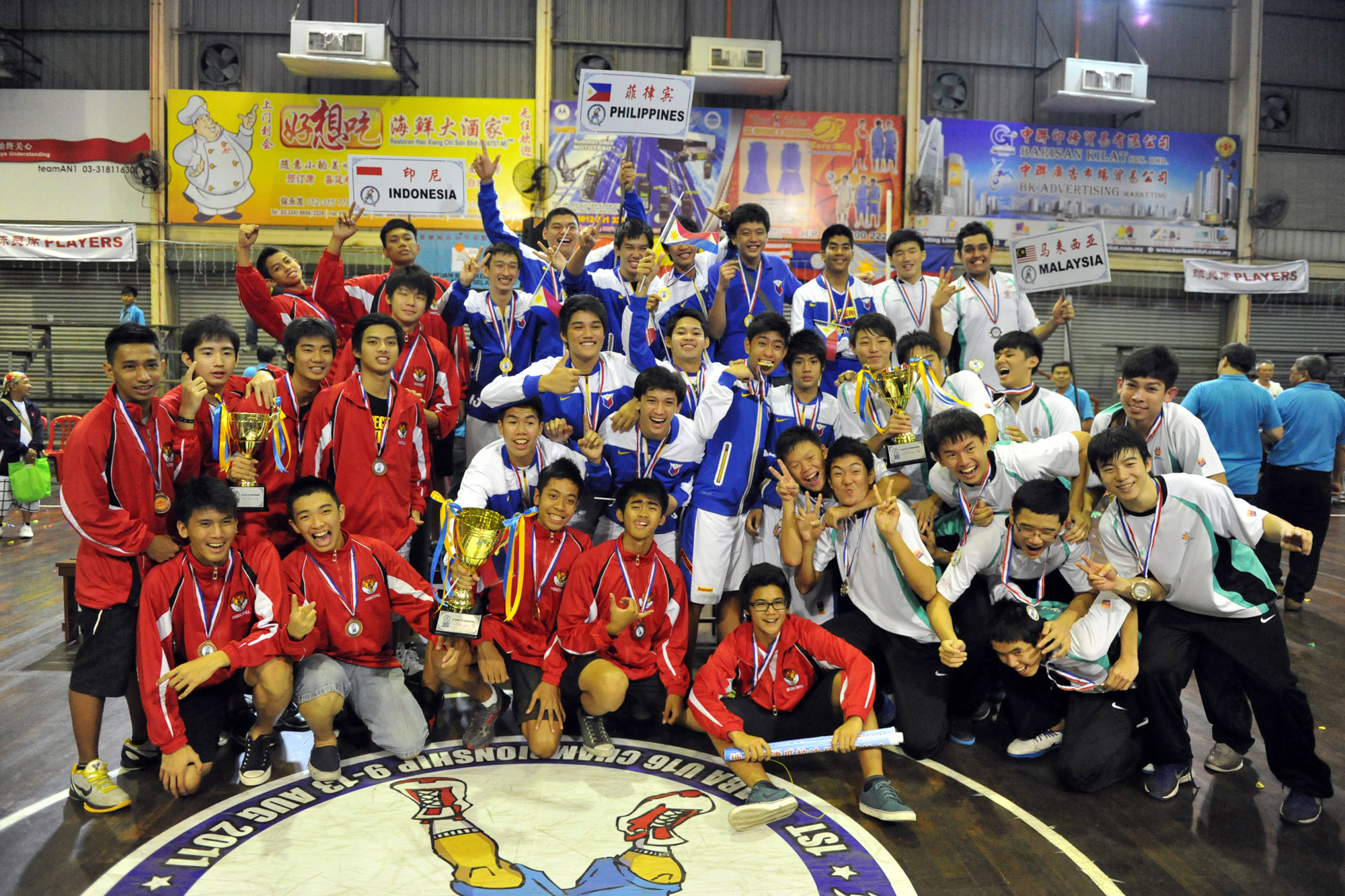 Indonesia (red), Philippines (blue), and Malaysia (white) are the champions at 1st SEABA U16 Championships for Men at Banting City, Selangor, Malaysia, 9-13 August 2011.